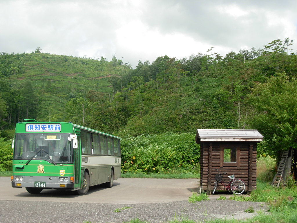 Bus stop at old Misono station (Iburi line)